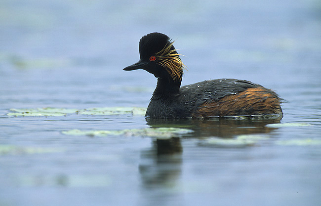 Black-necked Grebe